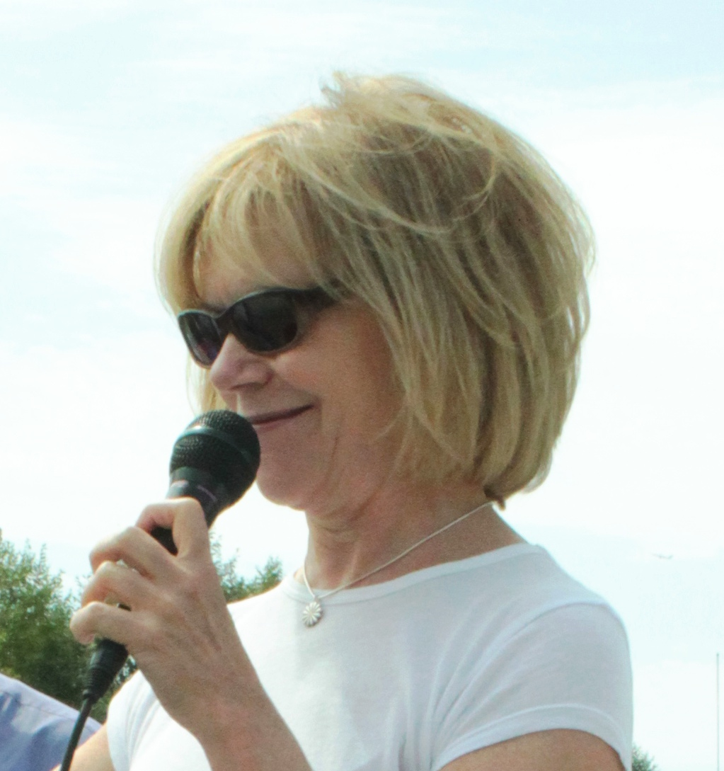 Governor Dayton's Chief of Staff, Tina Smith, reads the Governor's proclamation aloud, announcing August 5-11th to be Farmers Market Week.